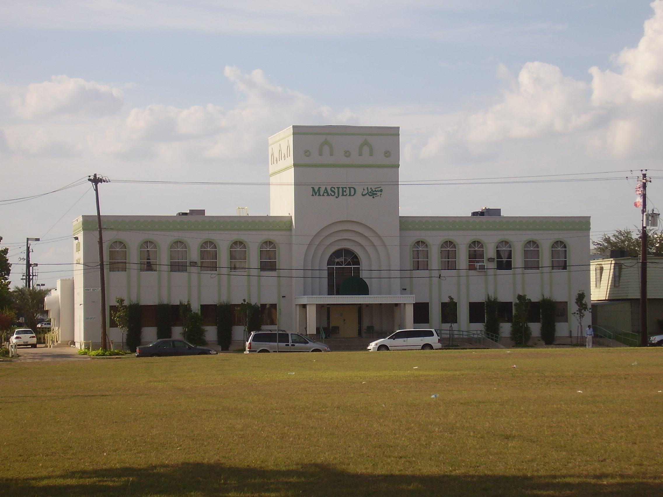 Madrasah Islamiah Masjid Noor - A mosque and Islamic school - 6665 Bintliff, Houston, TX 77074